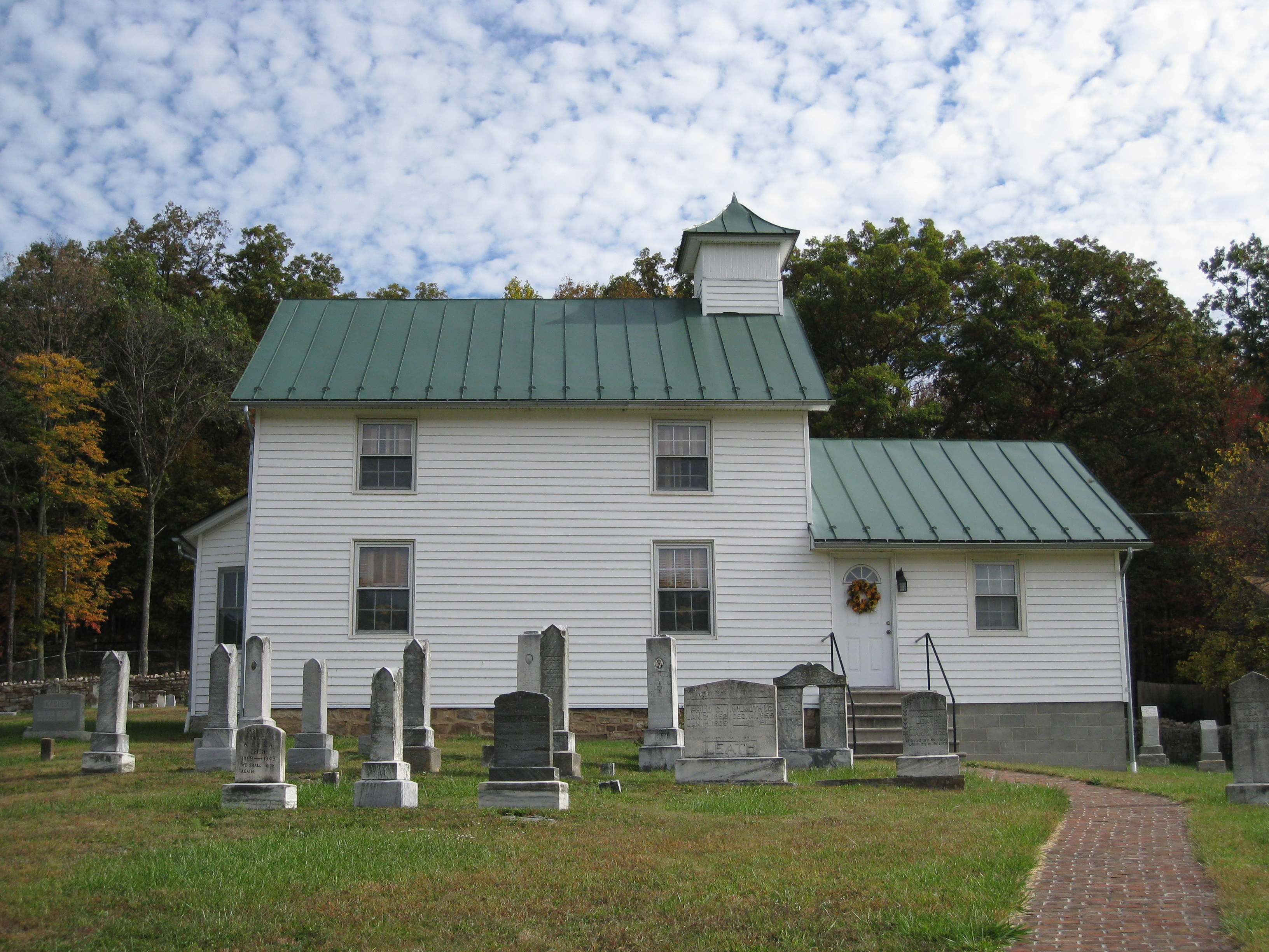 Bloomery Presbyterian Church (c. 1825) and Cemetery along Bloomery Pike (West Virginia Route 127) in Bloomery, West Virginia, United States.